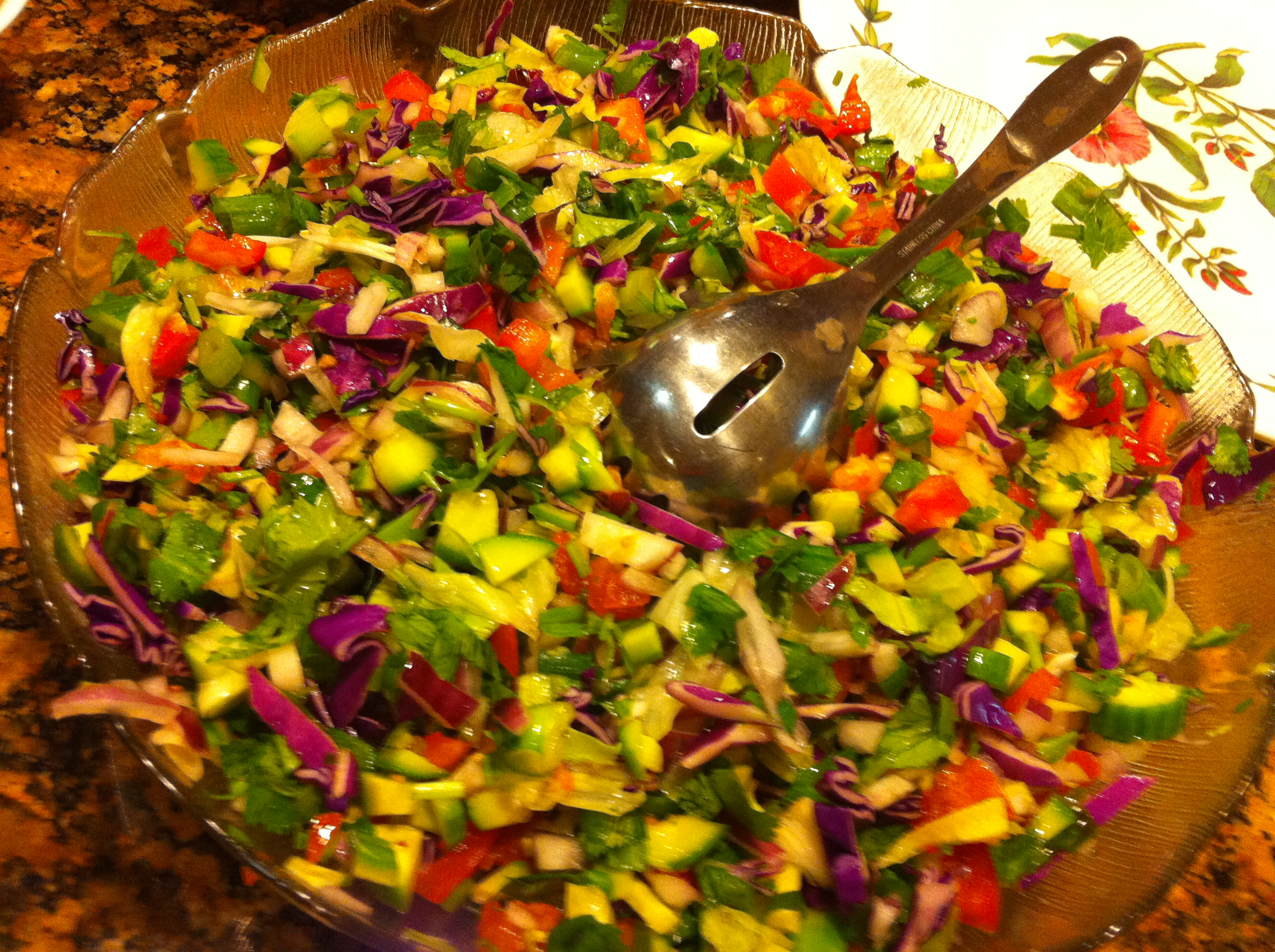 Afghan food